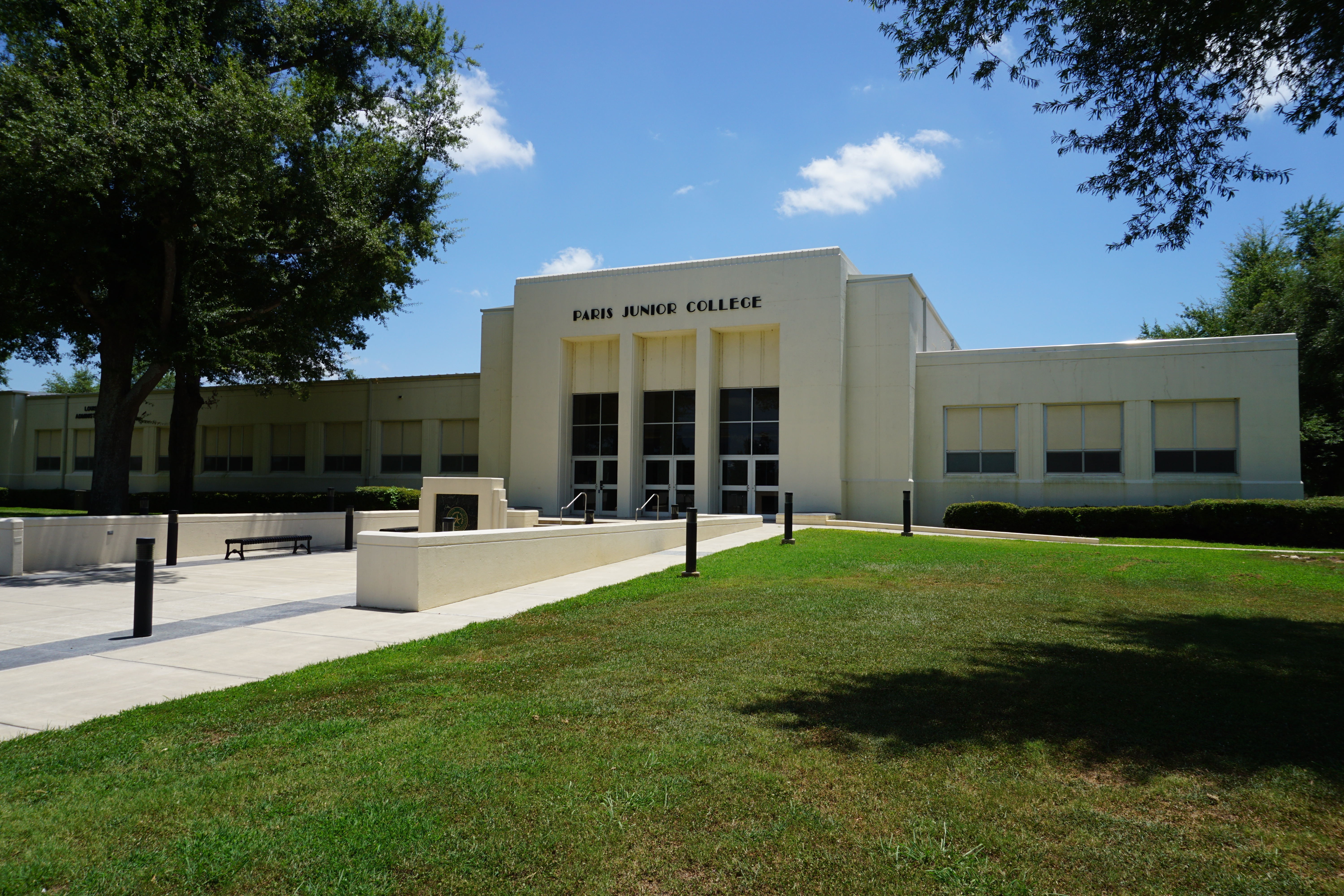 The Louis B. Williams Administration Building on the campus of Paris Junior College in Paris, Texas (United States).